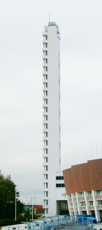 The tower of Helsinki Olympic Stadion (1934–38)